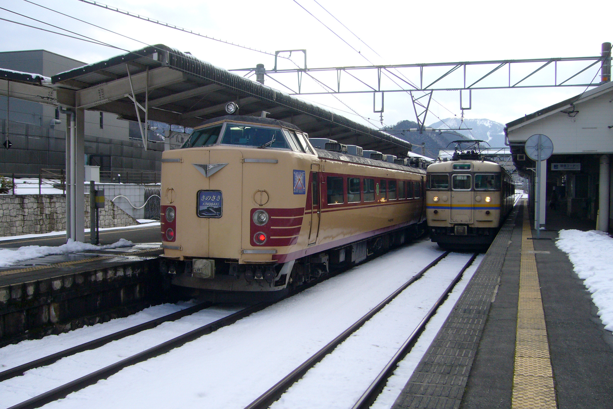 Yoka Station in Yabu, Hyogo prefecture, Japan